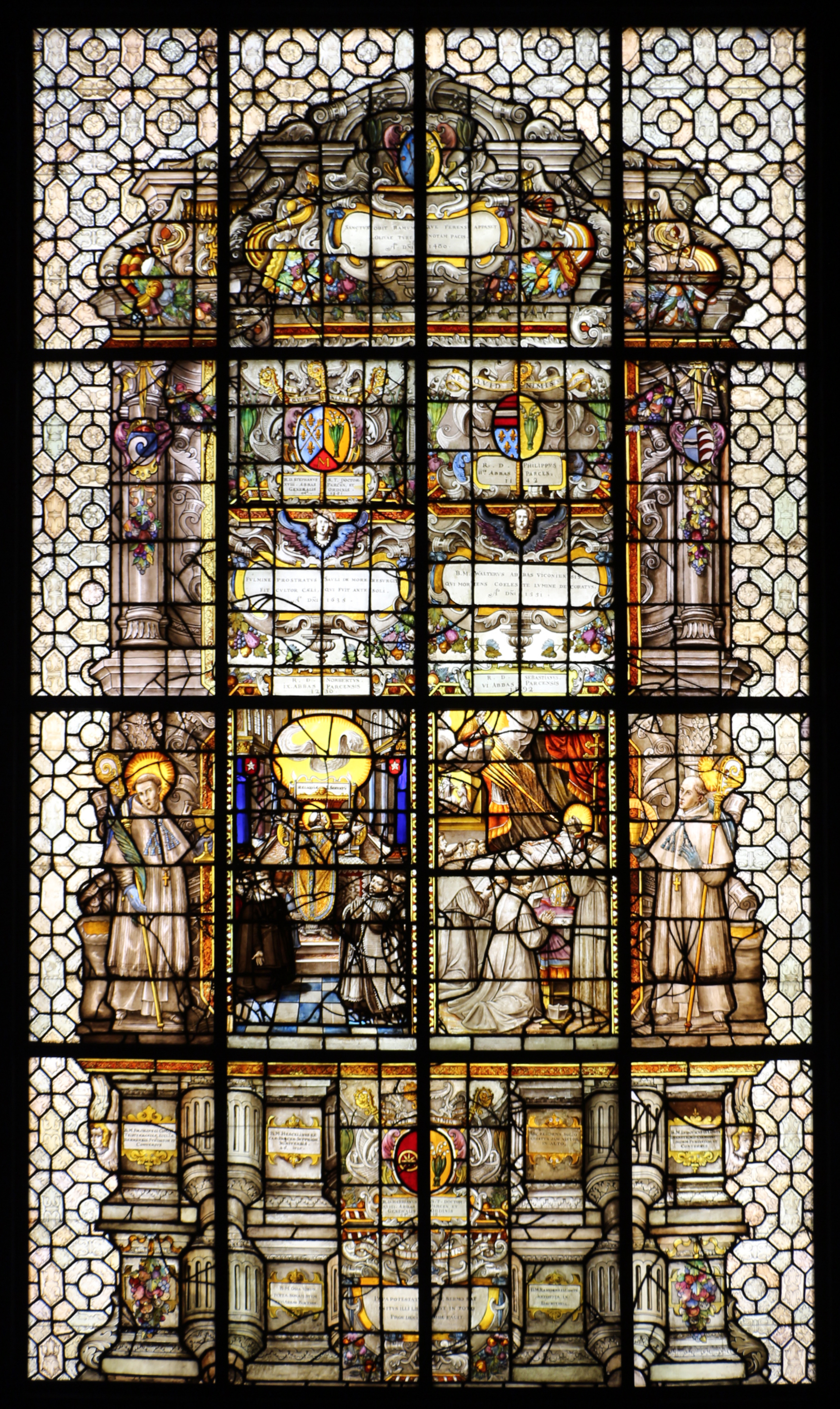 Glassware in the Speed Art Museum